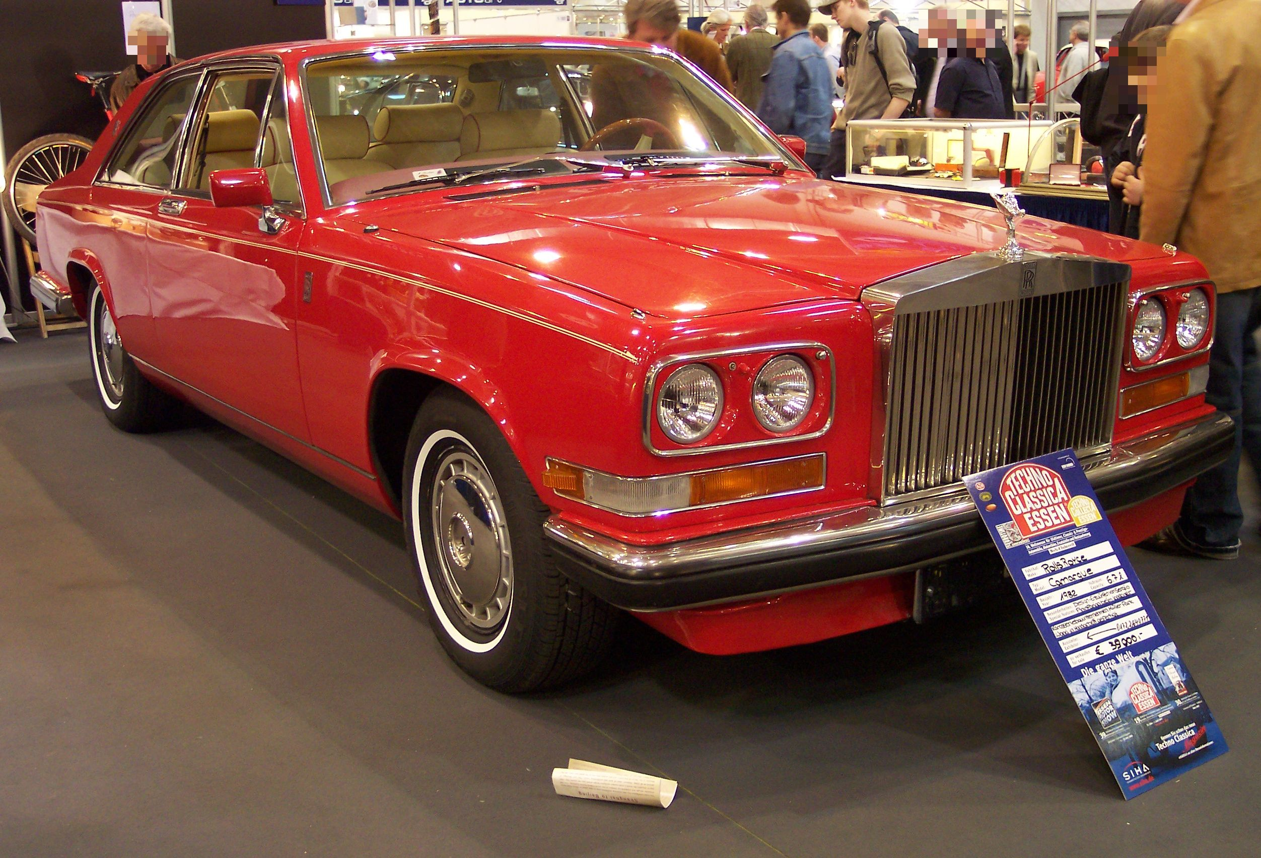 Essen Techno-Classica 2007, Rolls Royce Camargue, design by Sergio Pininfarina 1982, build by Muliner Park Ward